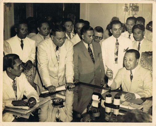 Gov. Alberto A. Villavert with Pres Elpidio Quirino